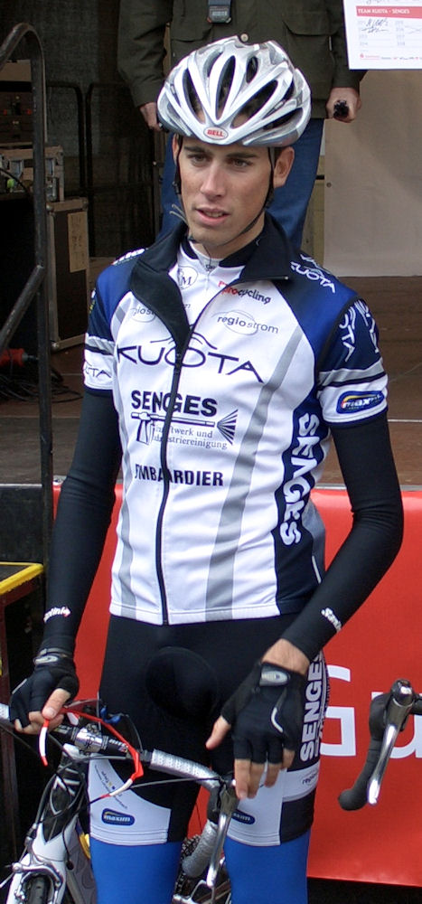 Laurent Didier